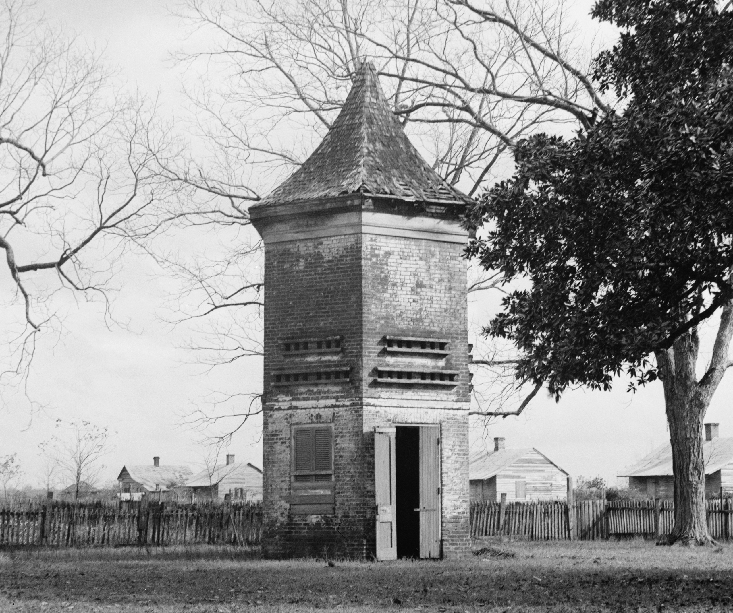 Uncle Sam Plantation, Convent vicinity, St. James Parish, LA. SOUTH DOVECOTE TOWER.